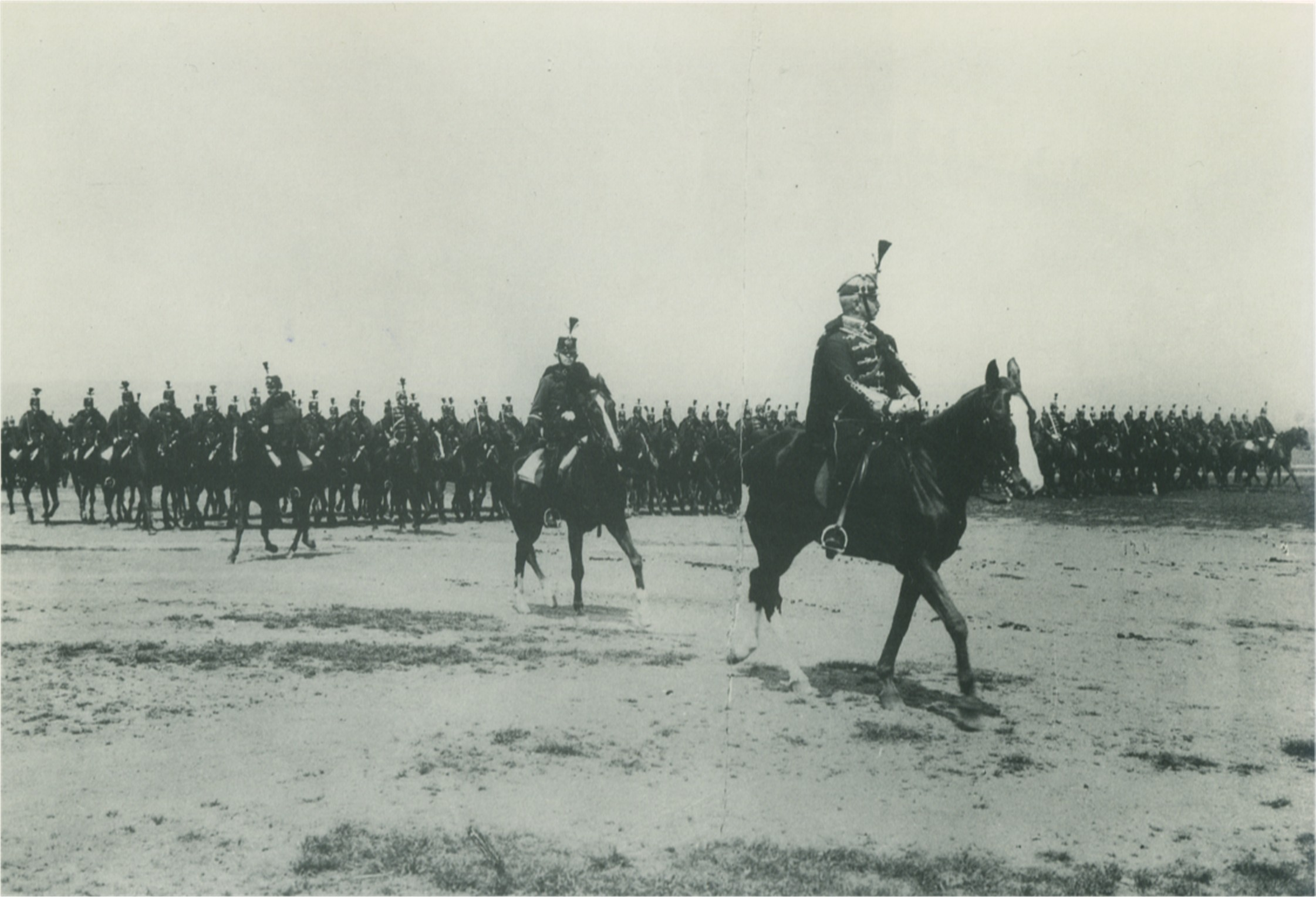 Austro-Hungarian Hussars at a parade